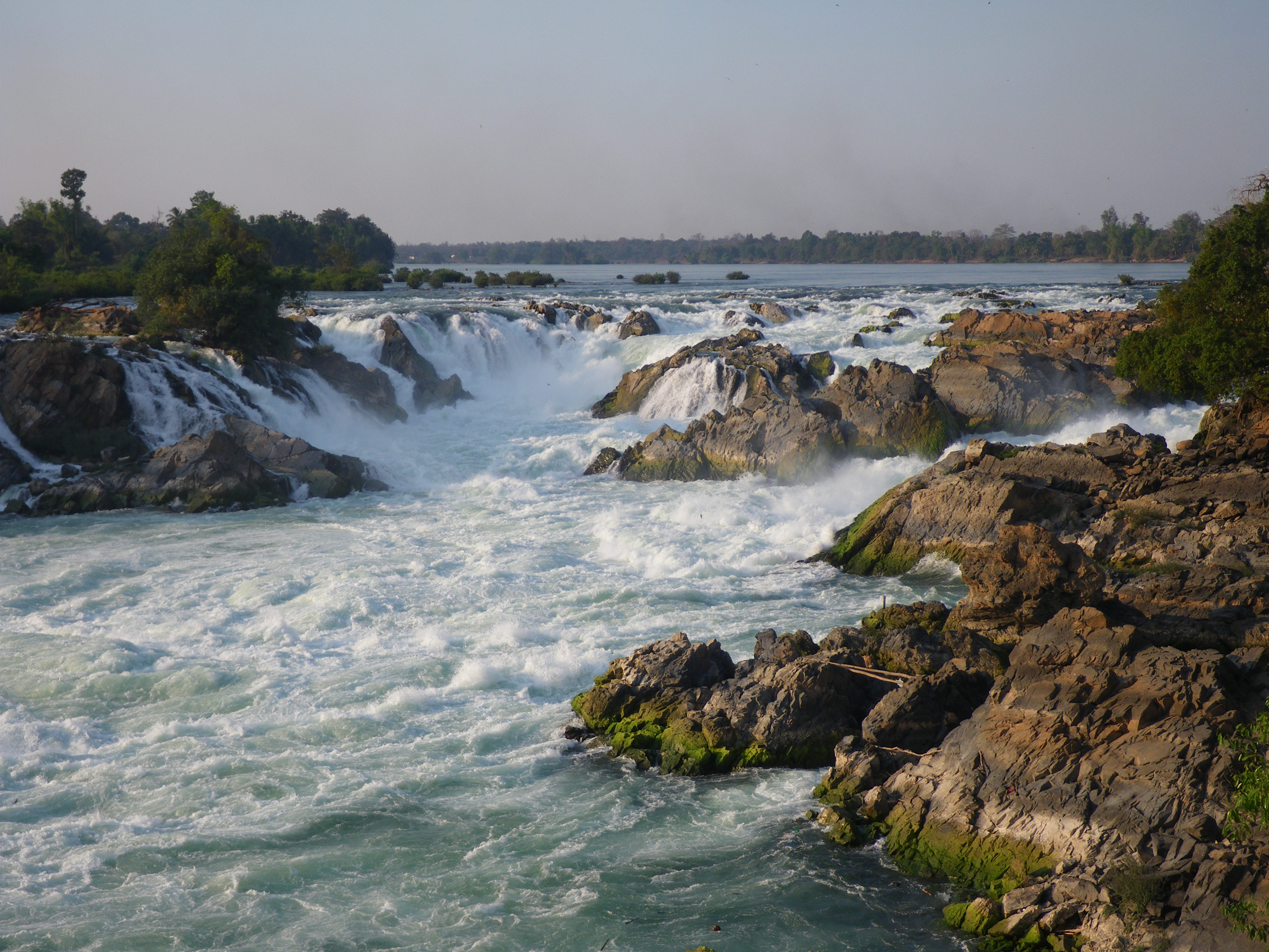 Khone Phapheng Falls, Mekong River, Laos.